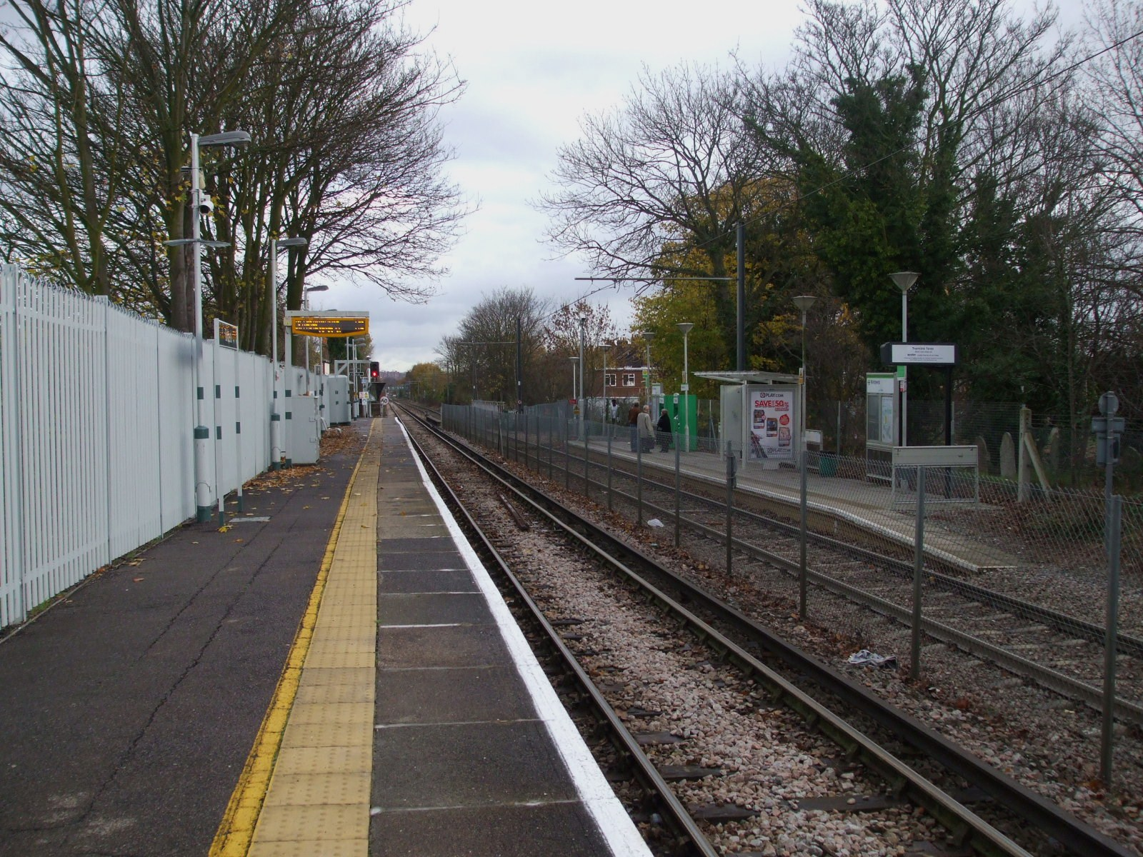 Birkbeck station mainline platform (bi-directional) looking east. The former south platform was demolished and rebuilt for use by Tramlink (open 2000).